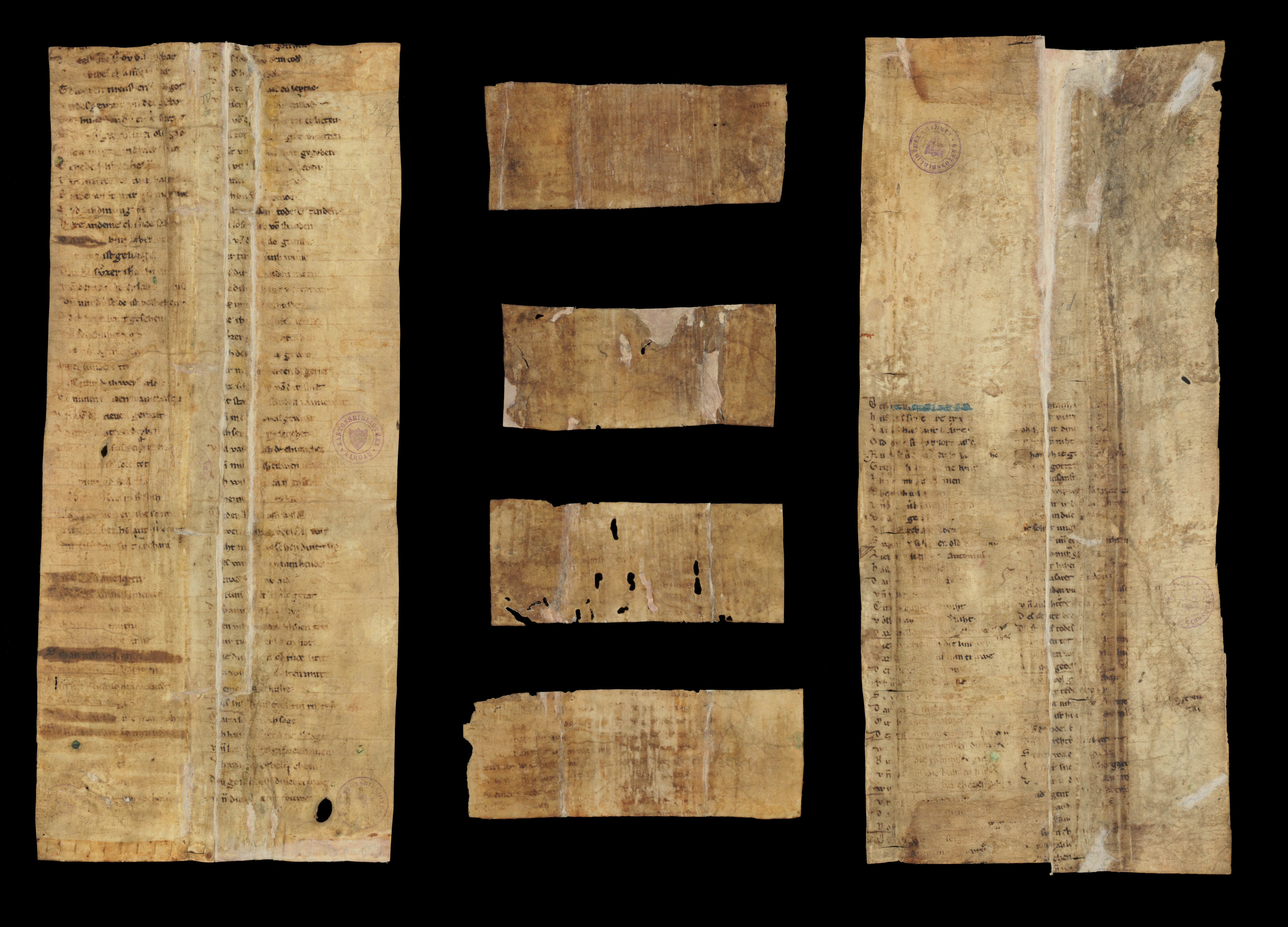 Osterspiel von Muri